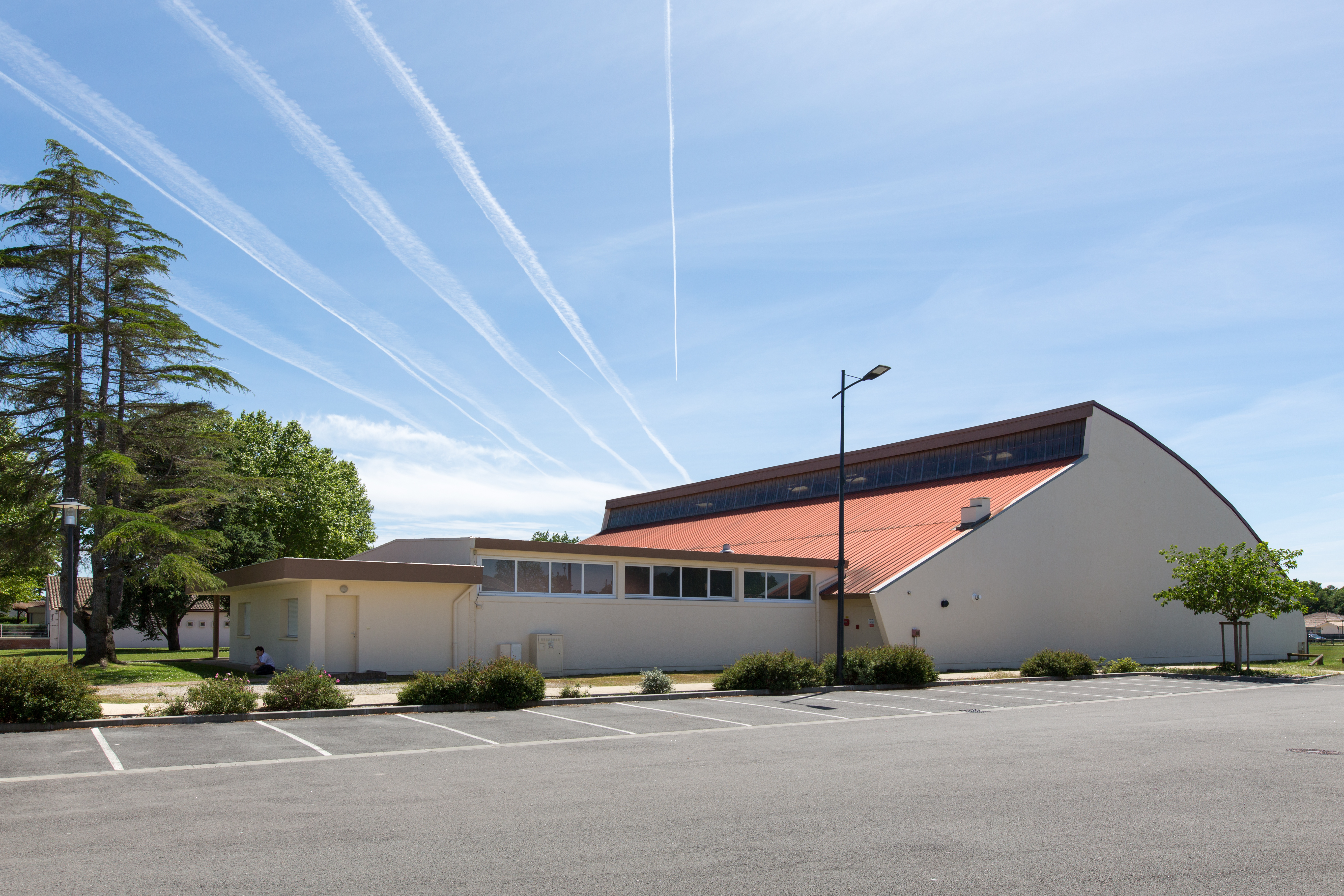 Salle de sports